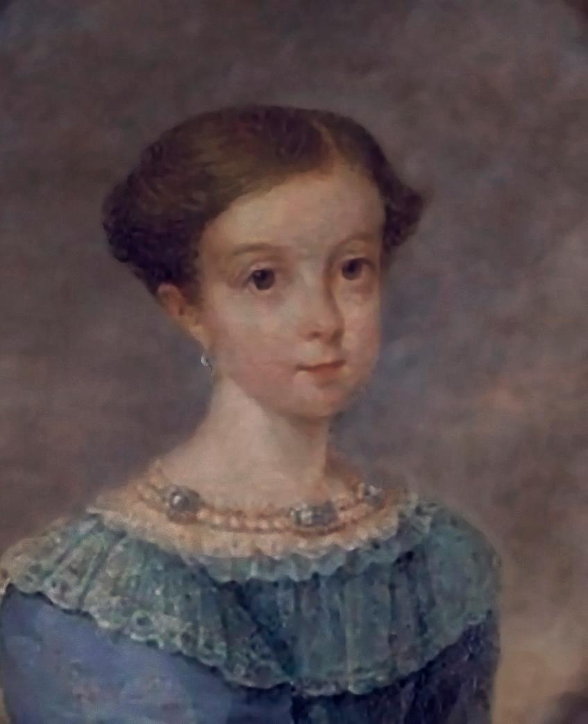 Palacio ajuda